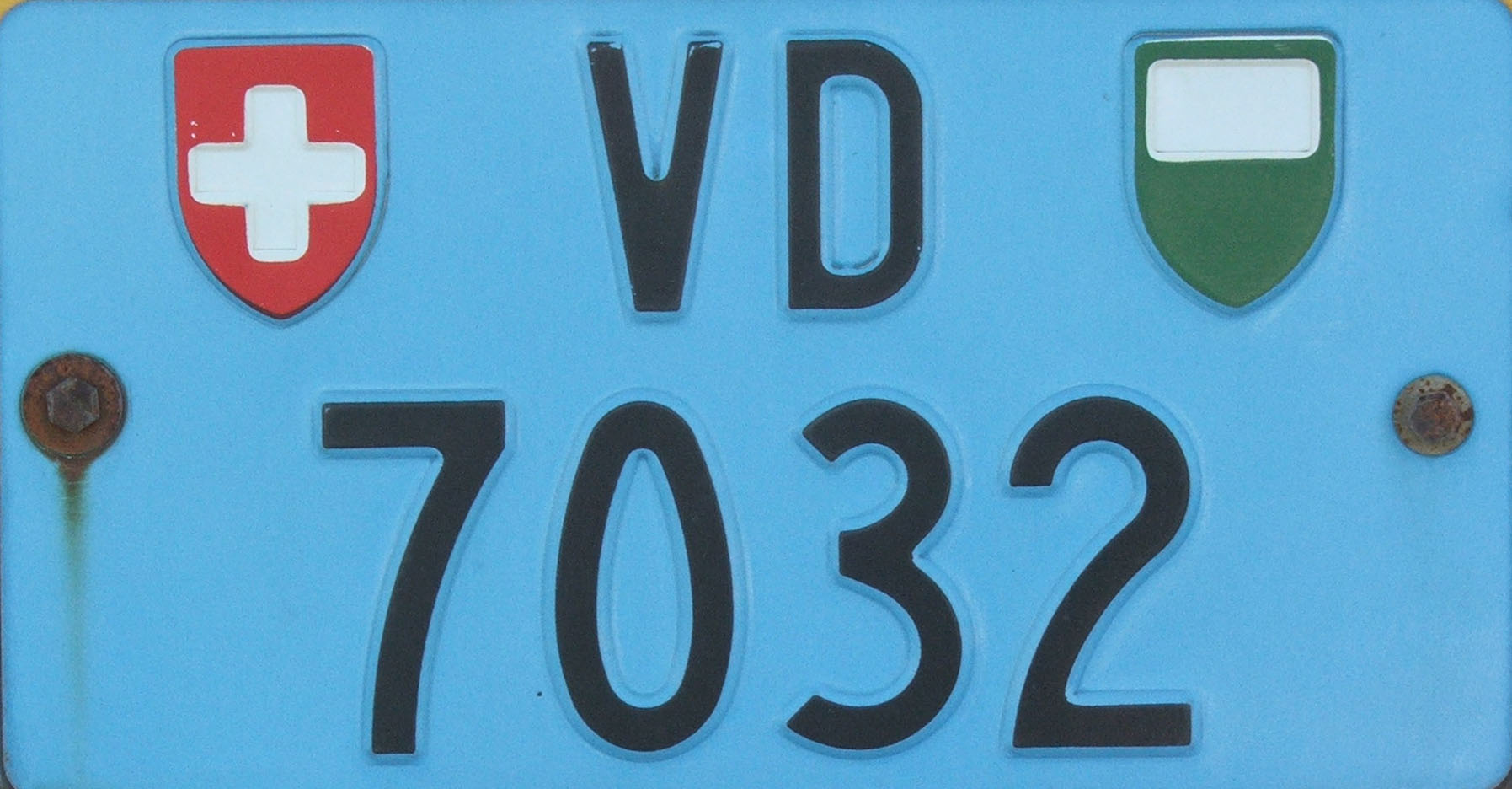 Vehicle licence plate for heavy utilitary vehicles from Switzerland as seen in 2007. "VD" stands for Vaud canton.